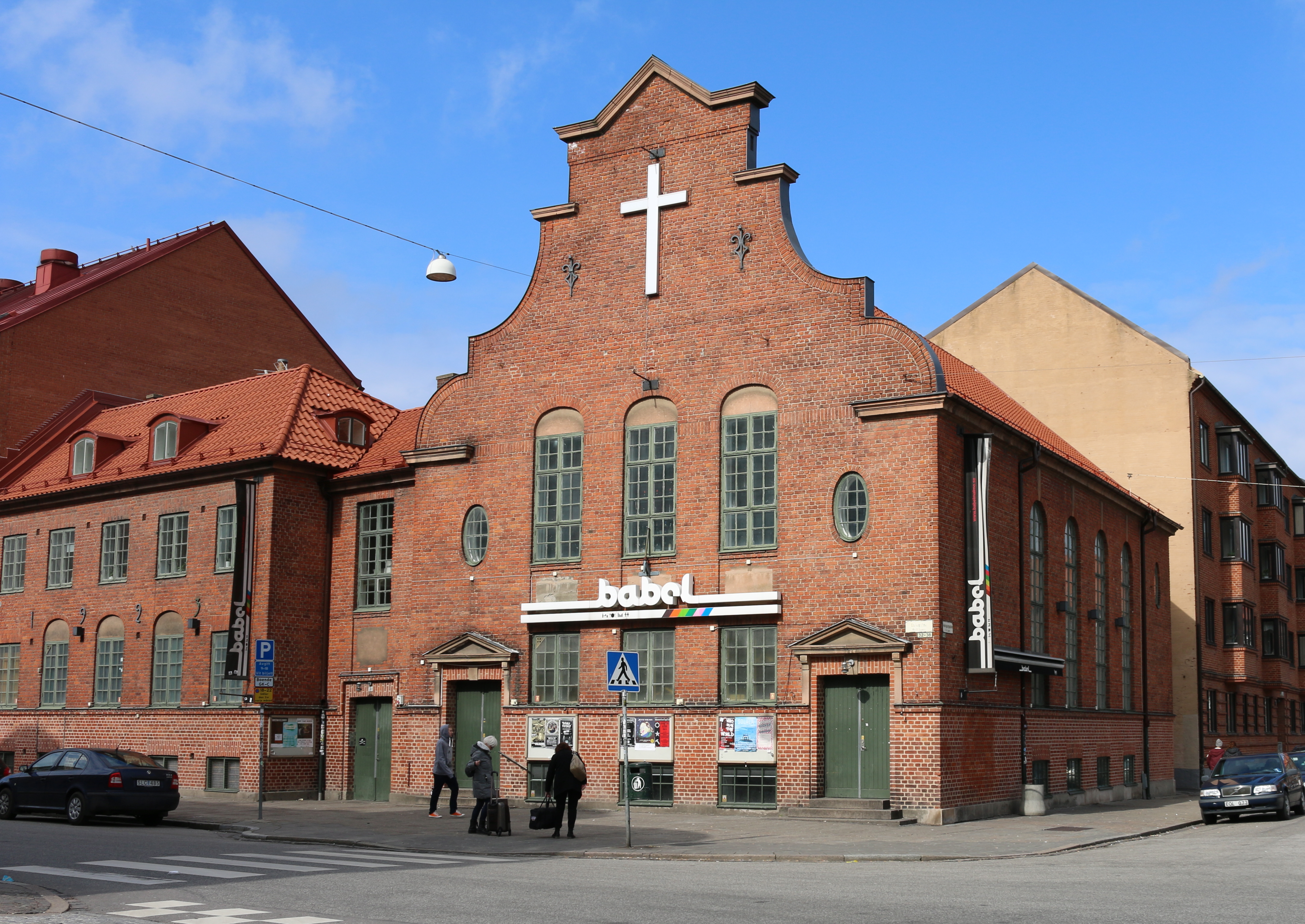 Babel, an entertainment venue in Malmö, built in 1923 as a church named Betesda from the Pietist-Menonite Brotherhood, later sold to the Second Army of the Salvation Army in Malmö.